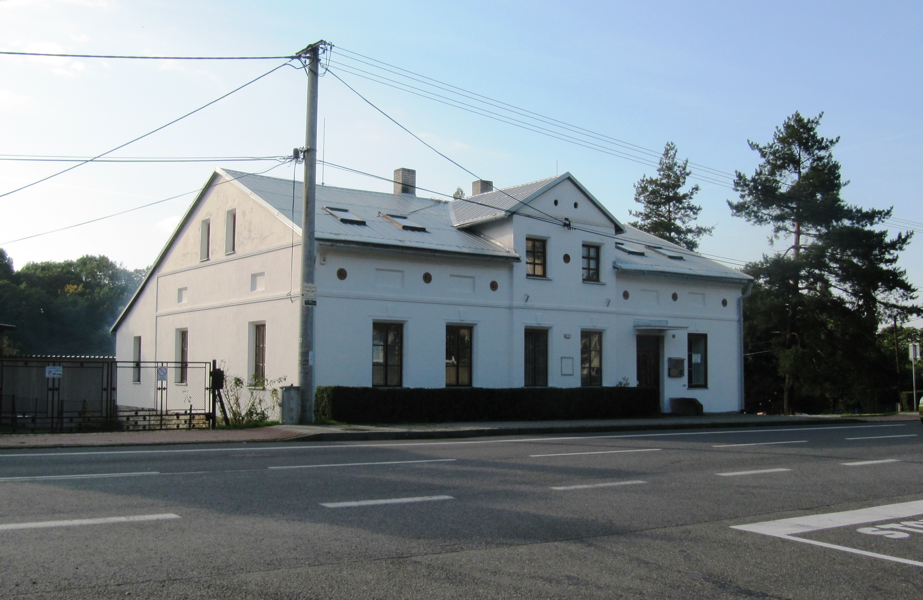 Nošovice, Frýdek-Místek District, Czech Republic.